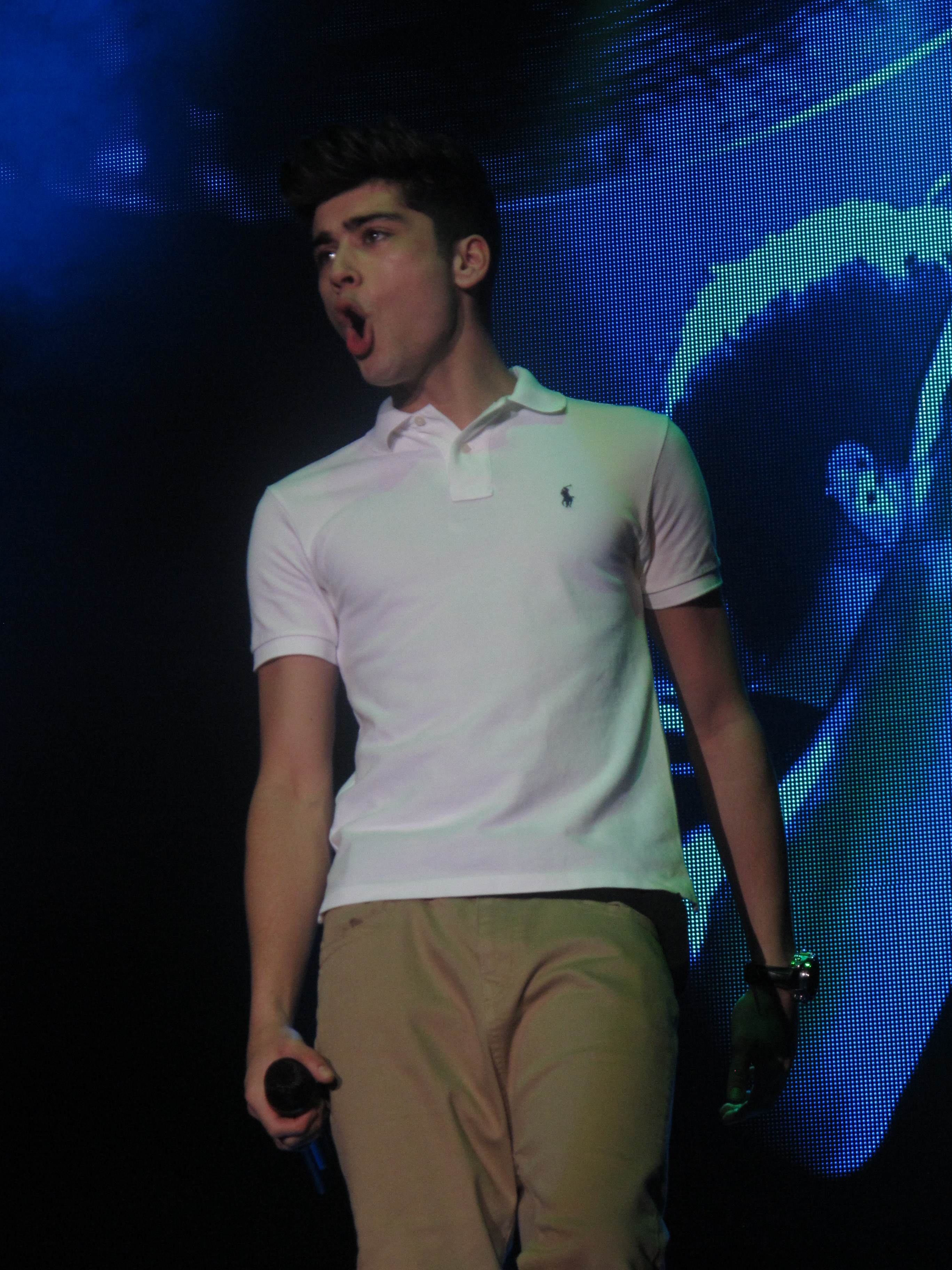 Up All Night Tour @ San Jose